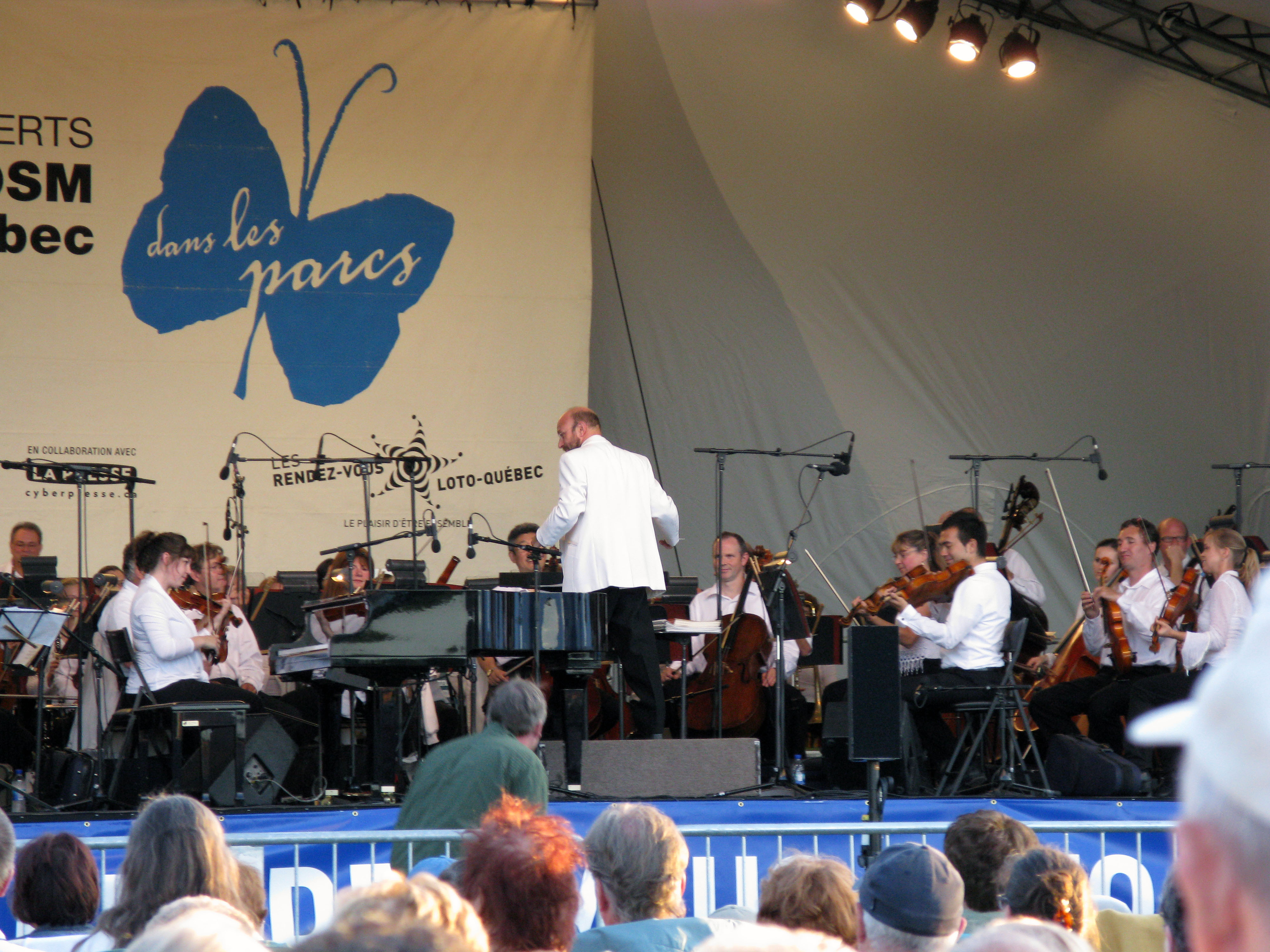 The Montreal Symphony Orchestra playing in the borough of Pierrefonds-Roxboro with conductor Jean-François Rivest.